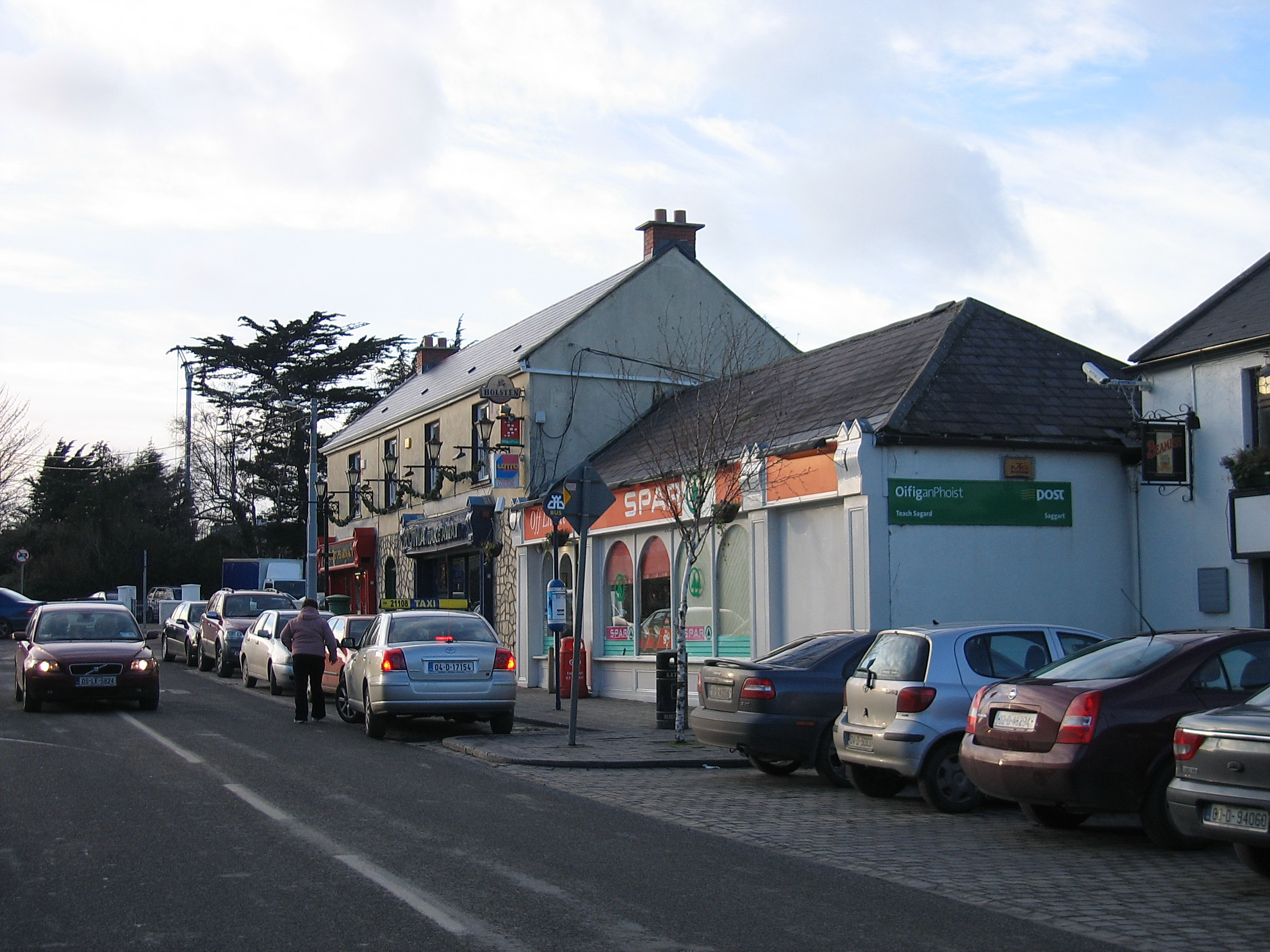 Saggart Village, Dublin (Sarah777 19:09, 7 January 2007 (UTC))